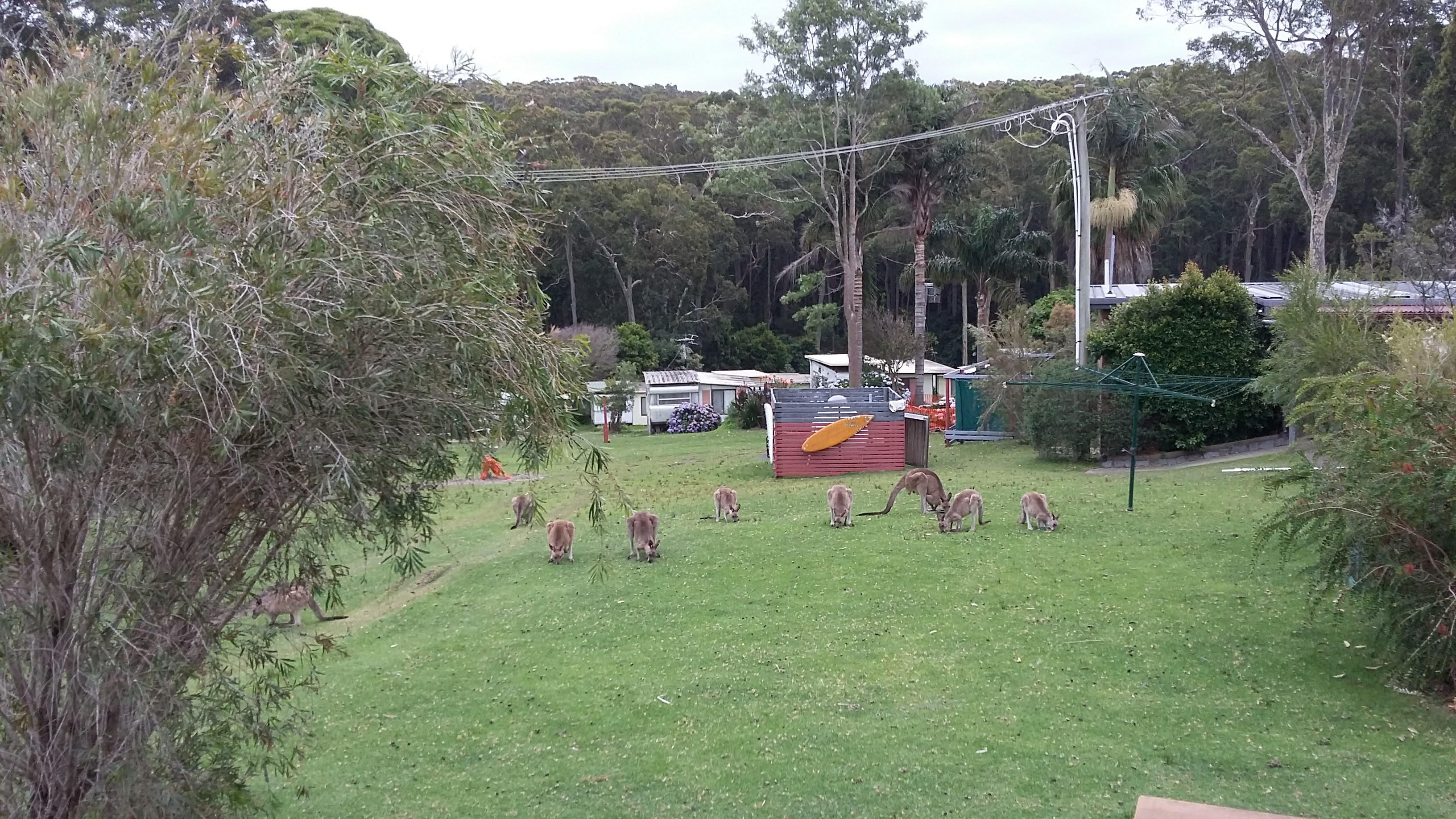 Durras North camping ground